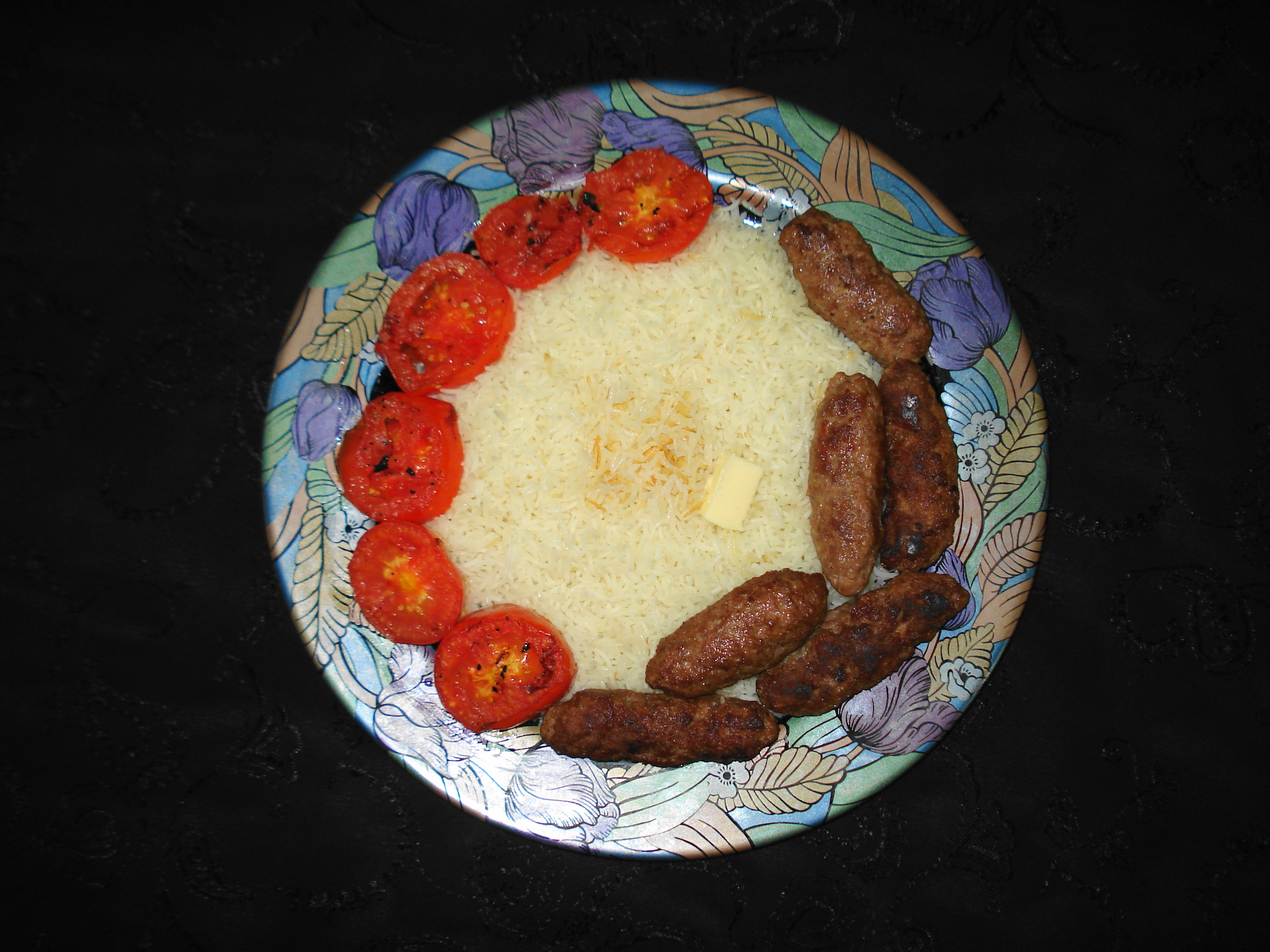 Chelo Kabab